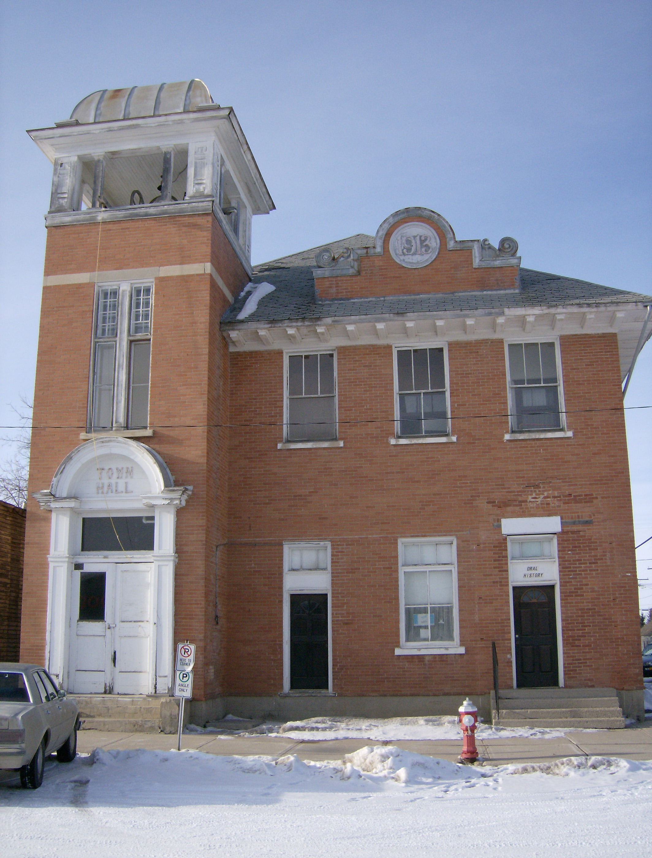 Town Hall, Craik, Saskatchewan, Canada. Taken by me on 22 February, 2007.